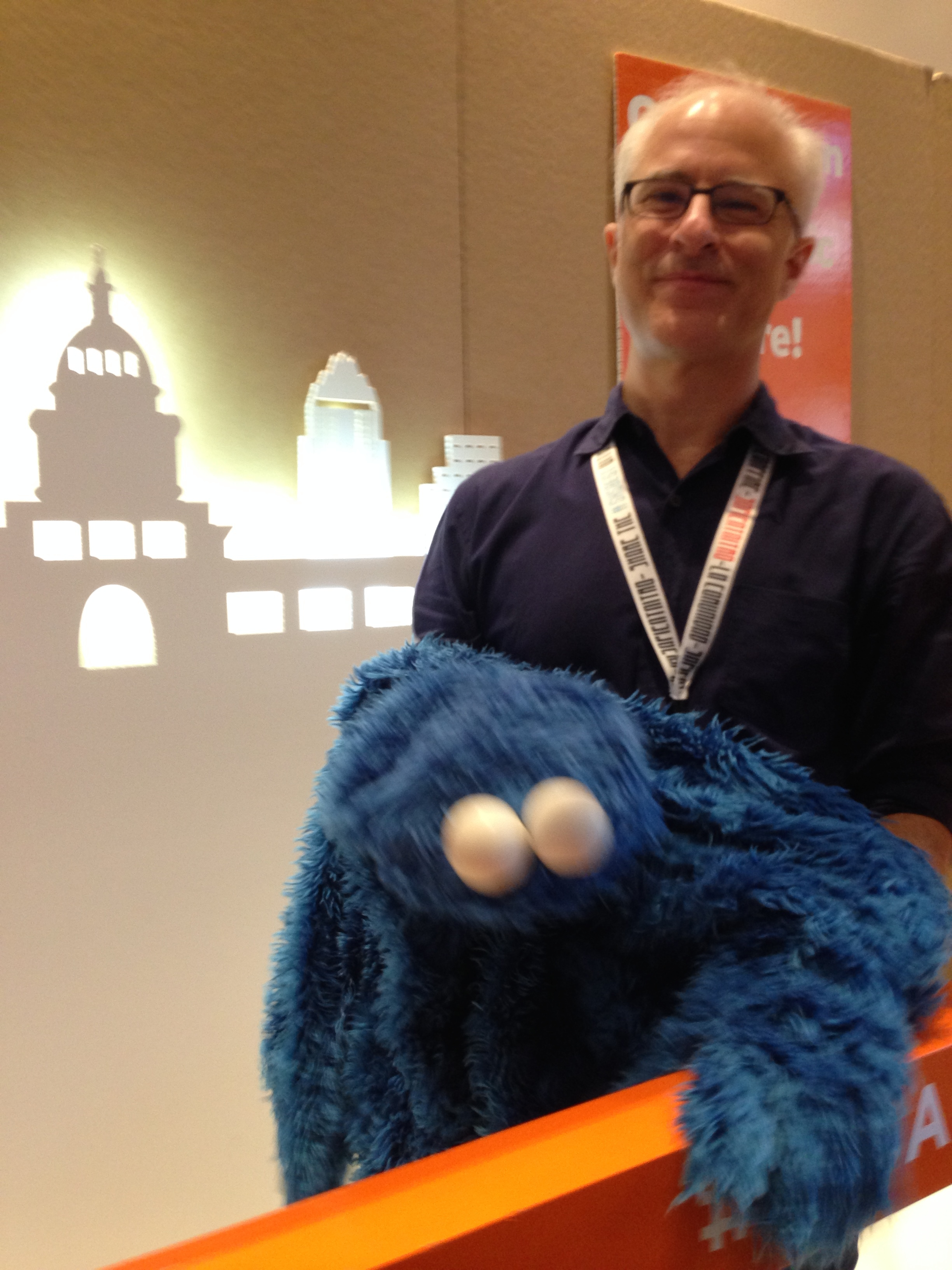 David Rudman, Cookie Monster puppeteer at SXSW 2015